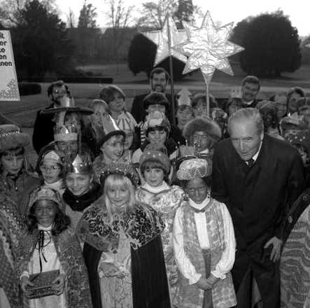 Title: Bundespräsident empfängt Sternsinger Extra information: Im Garten des Bundespräsidialamtes in Bonn People in the image: Carstens, Karl Prof. Dr.: Bundespräsident, MdB, CDU, Bundestagspräsident, Staatssekretär Auswärtiges Amt, Bundesrepublik Deutschland Factual corrections and alternative descriptions are encouraged separately from the original description. Additionally errors can be reported at this page to inform the Bundesarchiv. Original historic description: Bundespräsident Karl Carstens empfängt Sternsinger